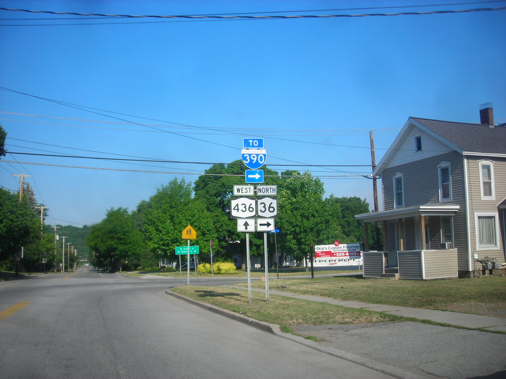 The eastern terminus of New York State Route 436 at New York State Route 36 in Dansville. Interstate 390 passes over NY 436 in the far background and is accessible via NY 36, as shown here.